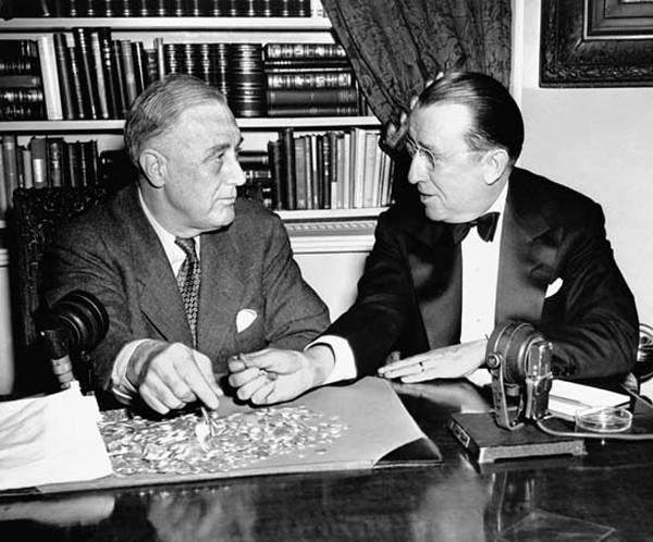 President Franklin Roosevelt, himself a victim of polio, meets with March of Dimes executive Basil O'Connor.